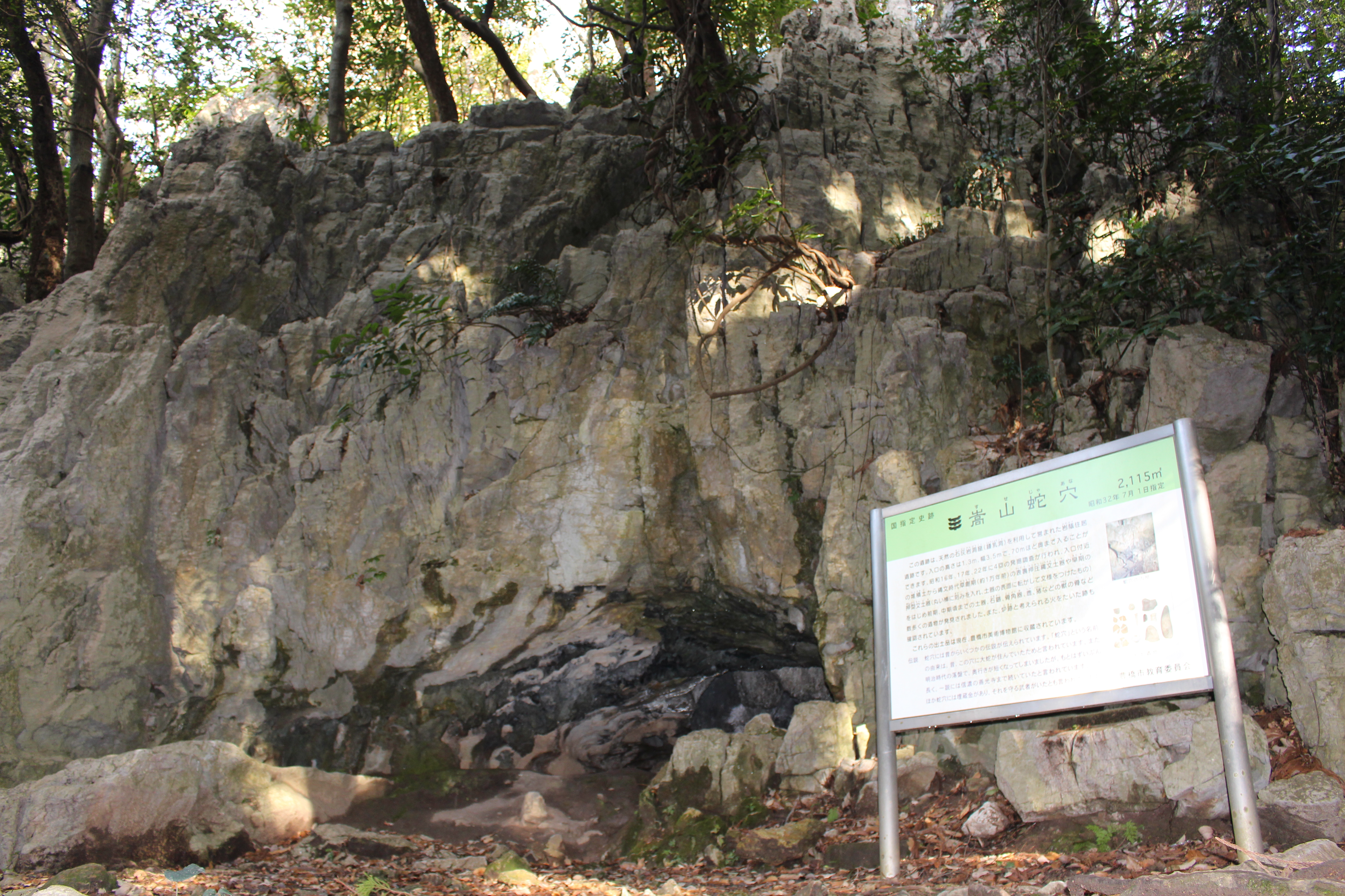 Susejaana in Toyahashi, Aichi prefecture, Japan.